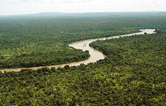 Gambier River